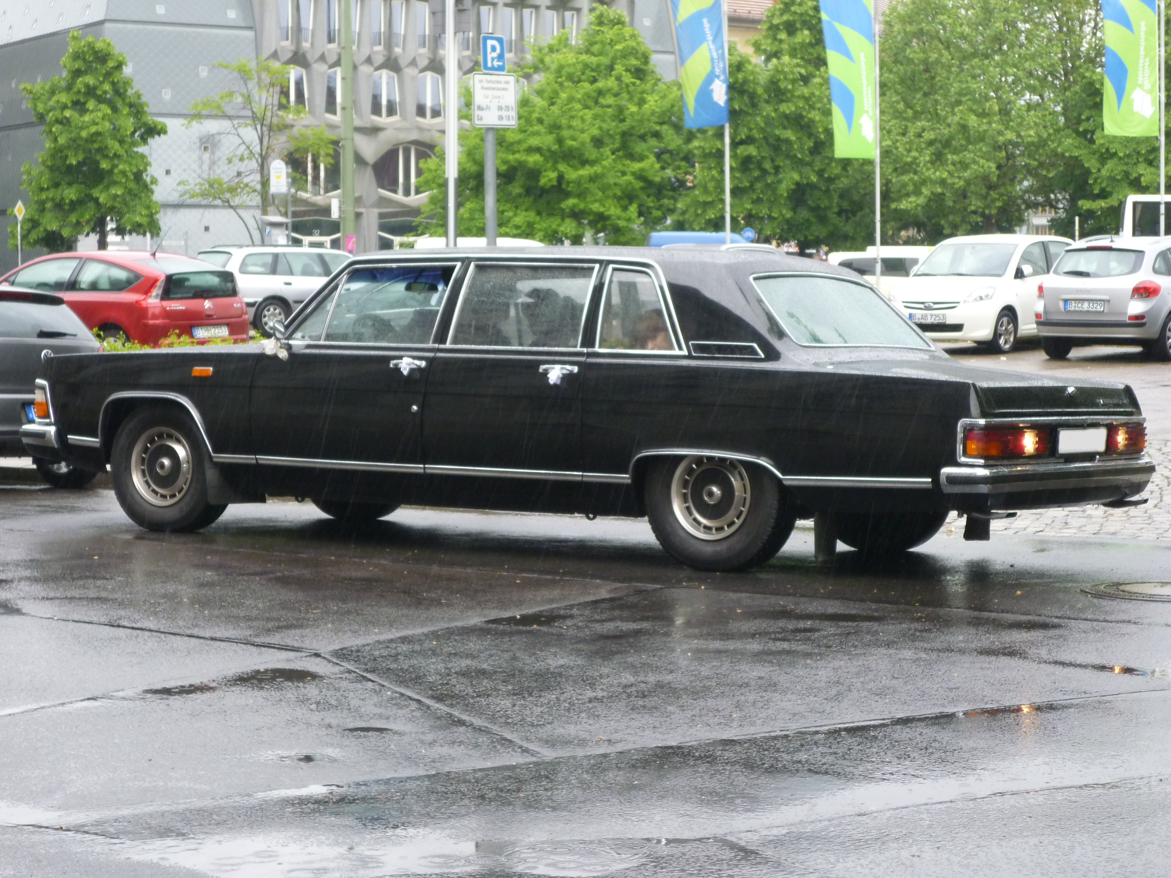 GAZ-14 Tschaika Berlin 2013.JPG